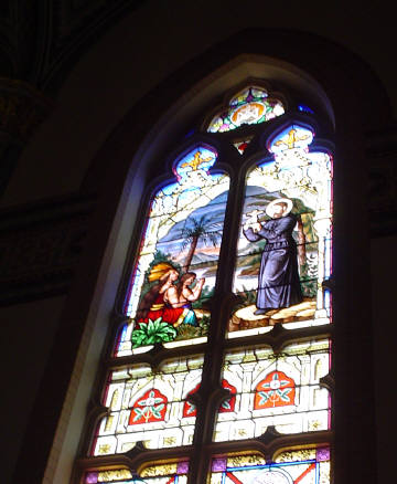 Presented here is a photo of one of the stained glass windows at the Basilica of St. Francis Xavier, Dyersville, Iowa, United States. If you look closely, you can see the image of St. Francis Xavier ministering to a couple Native Americans. Originally, the parish had told the window maker that they wanted a window with Xavier ministering to Indians - they had meant the people of the Indian subcontinent. However the maker took Indians to mean Native Americans when designing and creating the window.